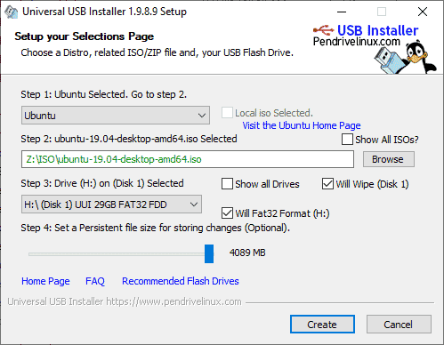 Universal USB Installer (UUI) - Steps to create a Live Linux USB Flash Drive (Setup Page)